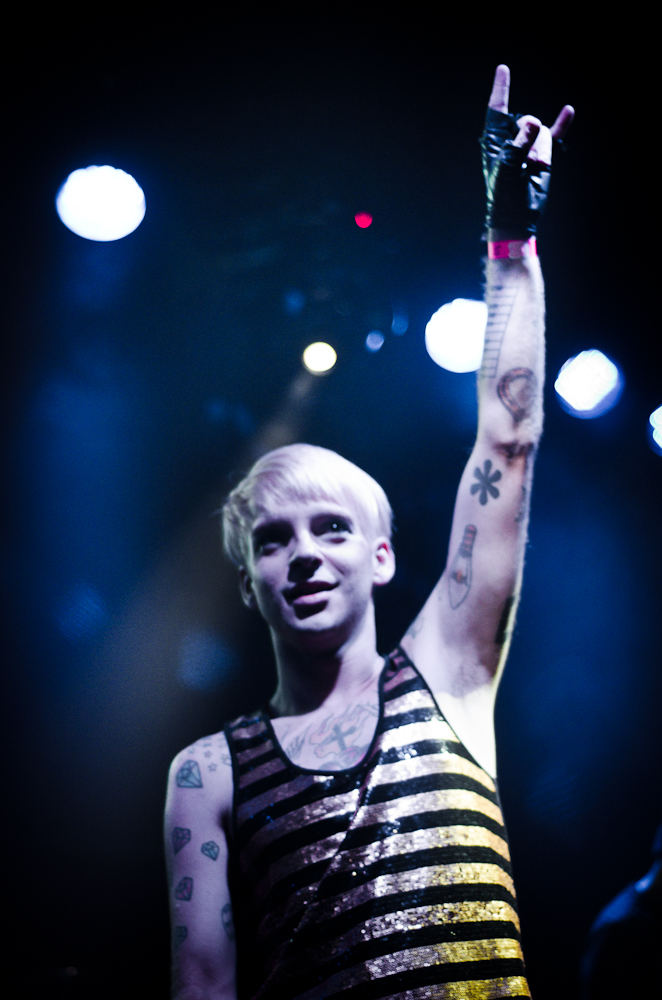 Brazilian singer Daniel Peixoto performing at Club in São Paulo